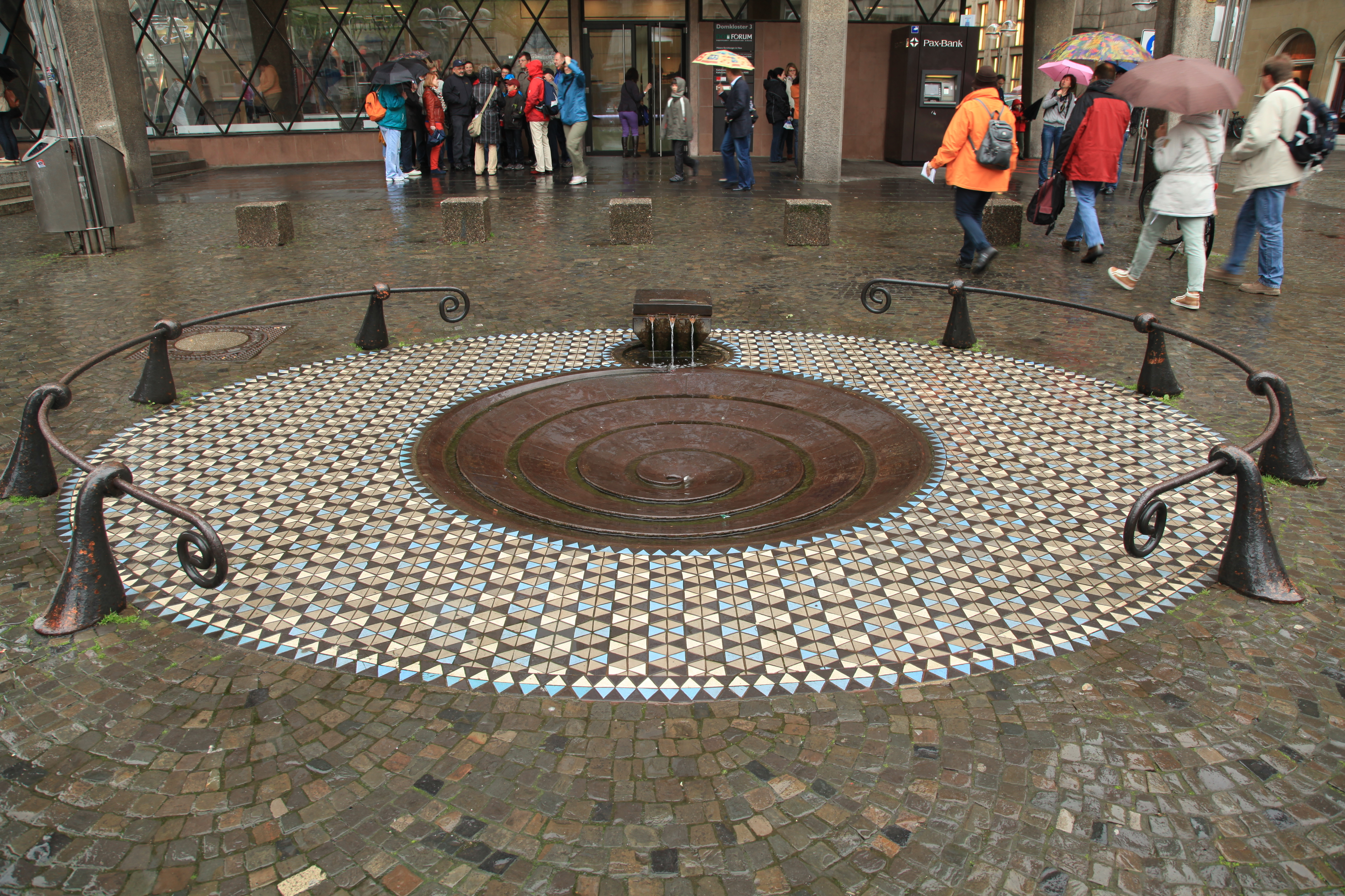 Taubenbrunnen (dove fontain) at the Domplatte square in Cologne